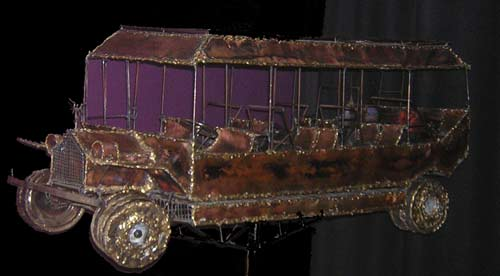 A copper and brass on steel armature sculpture by Hobart Ray Brown. Personal collection - Ellin Beltz. Photo by Ellin Beltz.